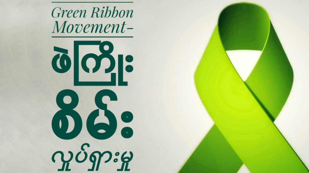 Green ribbon movement